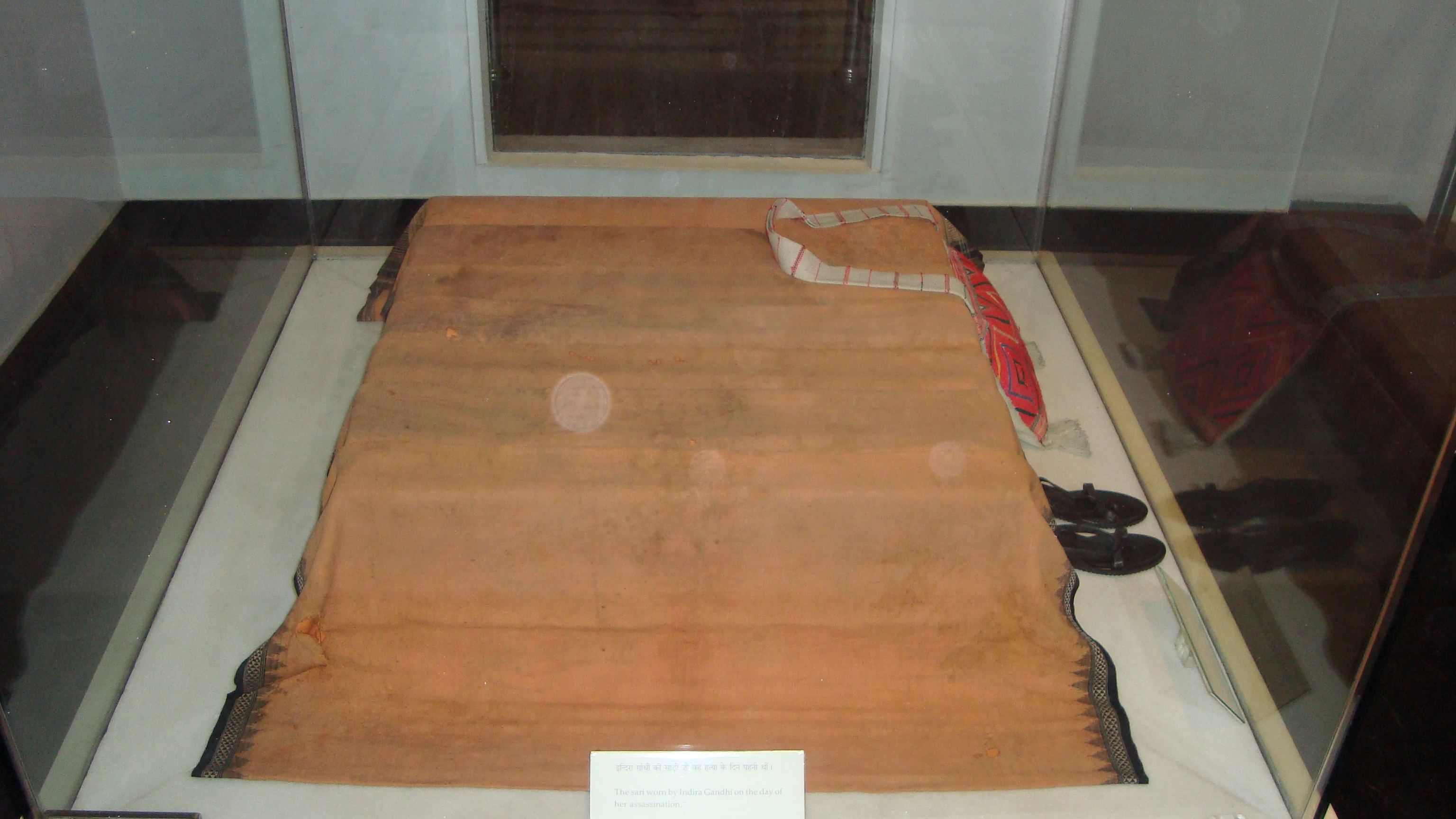 The dress Indira Gandhi was wearing when she got killed. Kept at her house (now a museum)